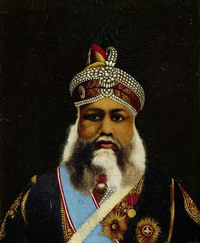 JAIPUR Hand-painted portrait of Sawai Madho Singh II, Maharaja of Jaipur